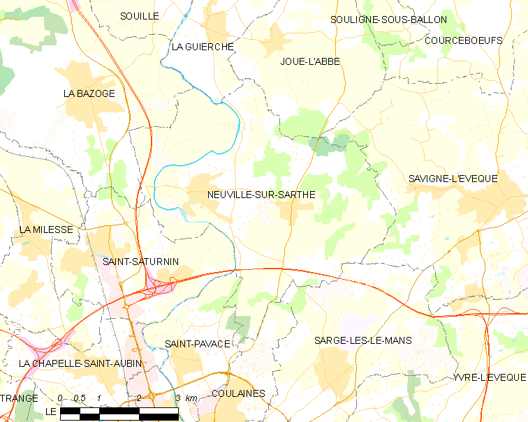 Map of French municipality